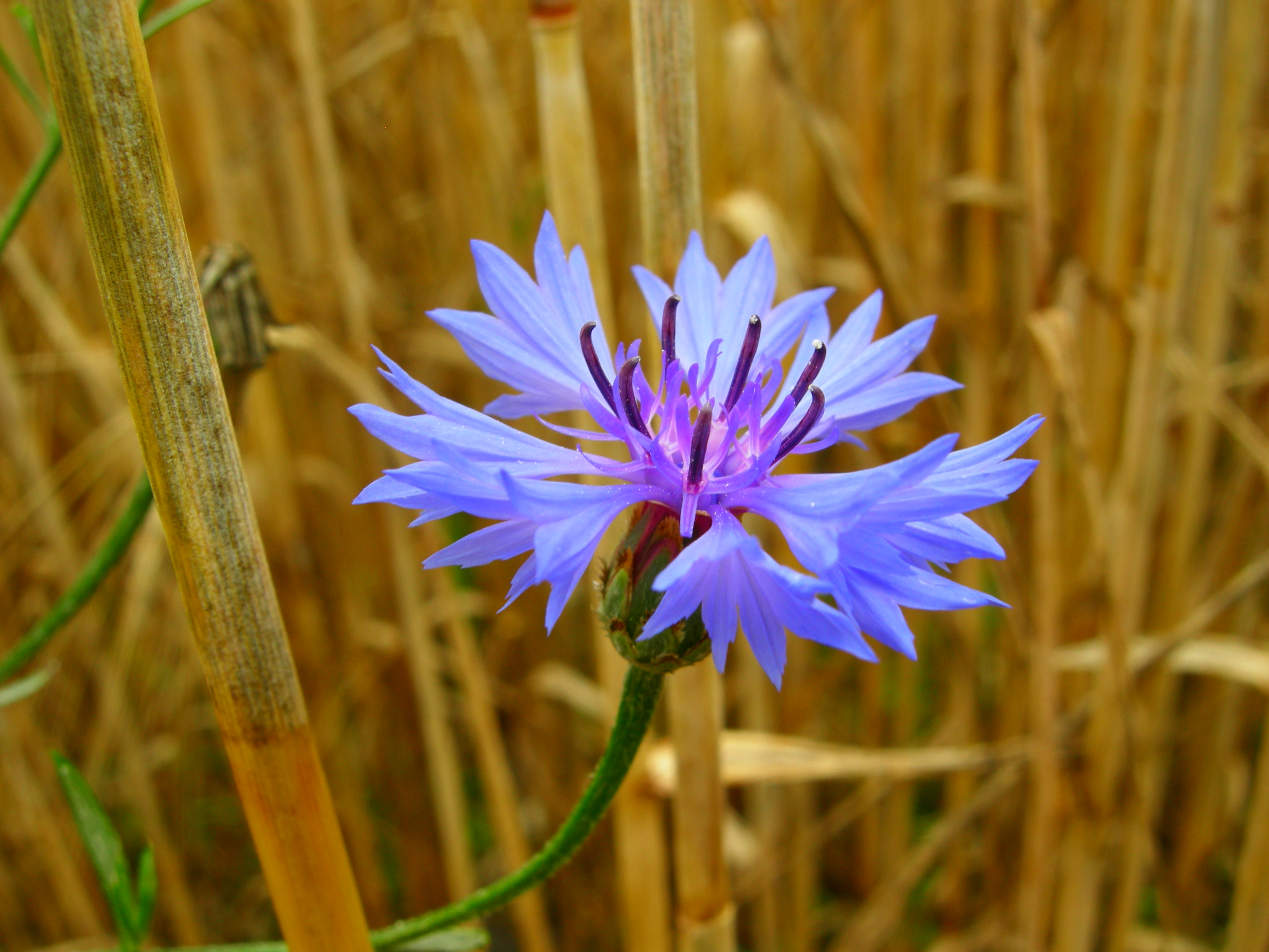 Centaurea cyanus as weed among hay, near Begunje na Gorenjskem, Slovenia